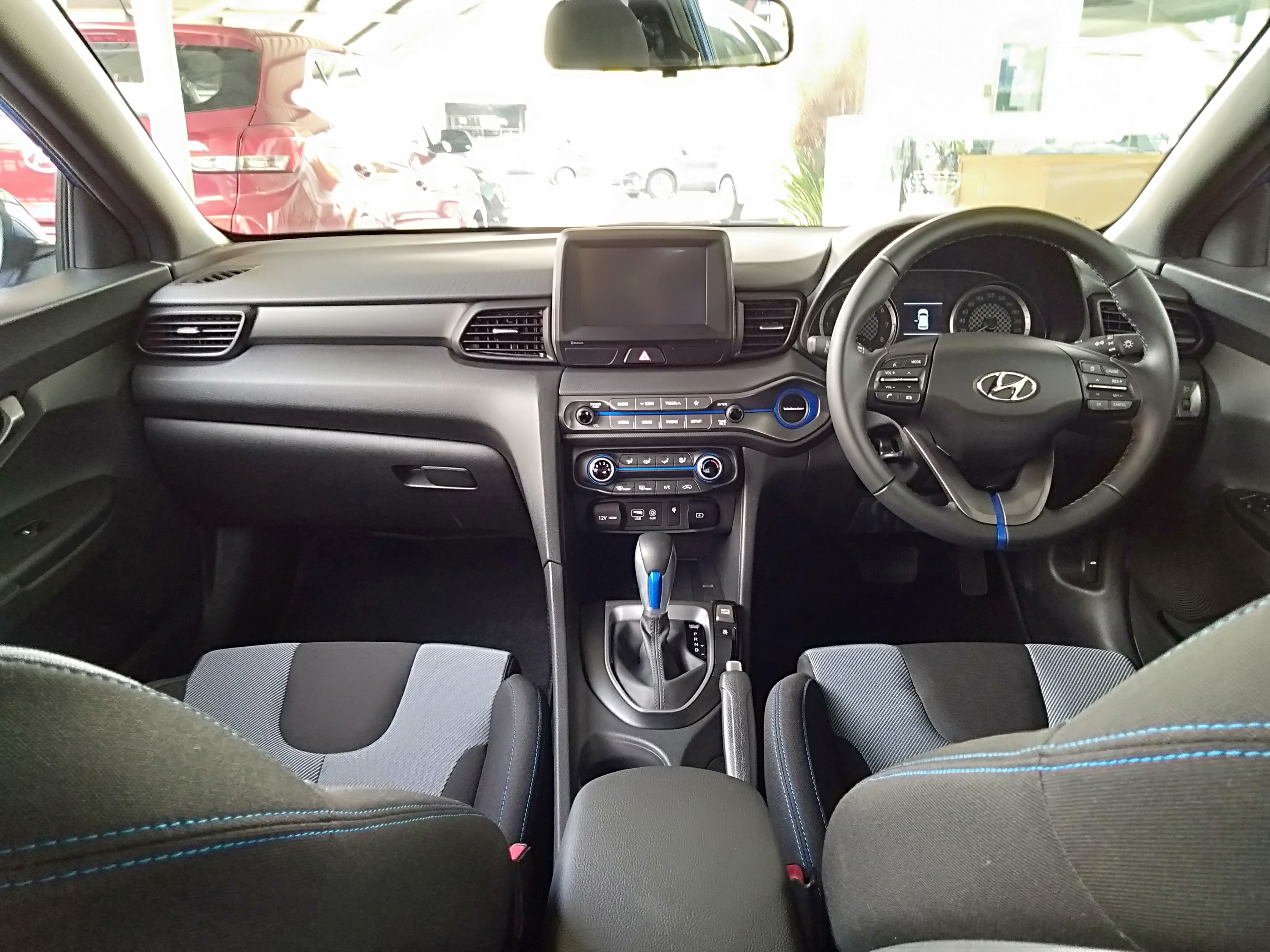 2021 Hyundai Veloster 2.0 interior view finished in Cobalt Eclipse paint. Photographed in Setia Motors Hyundai Showroom, Beribi, Brunei.